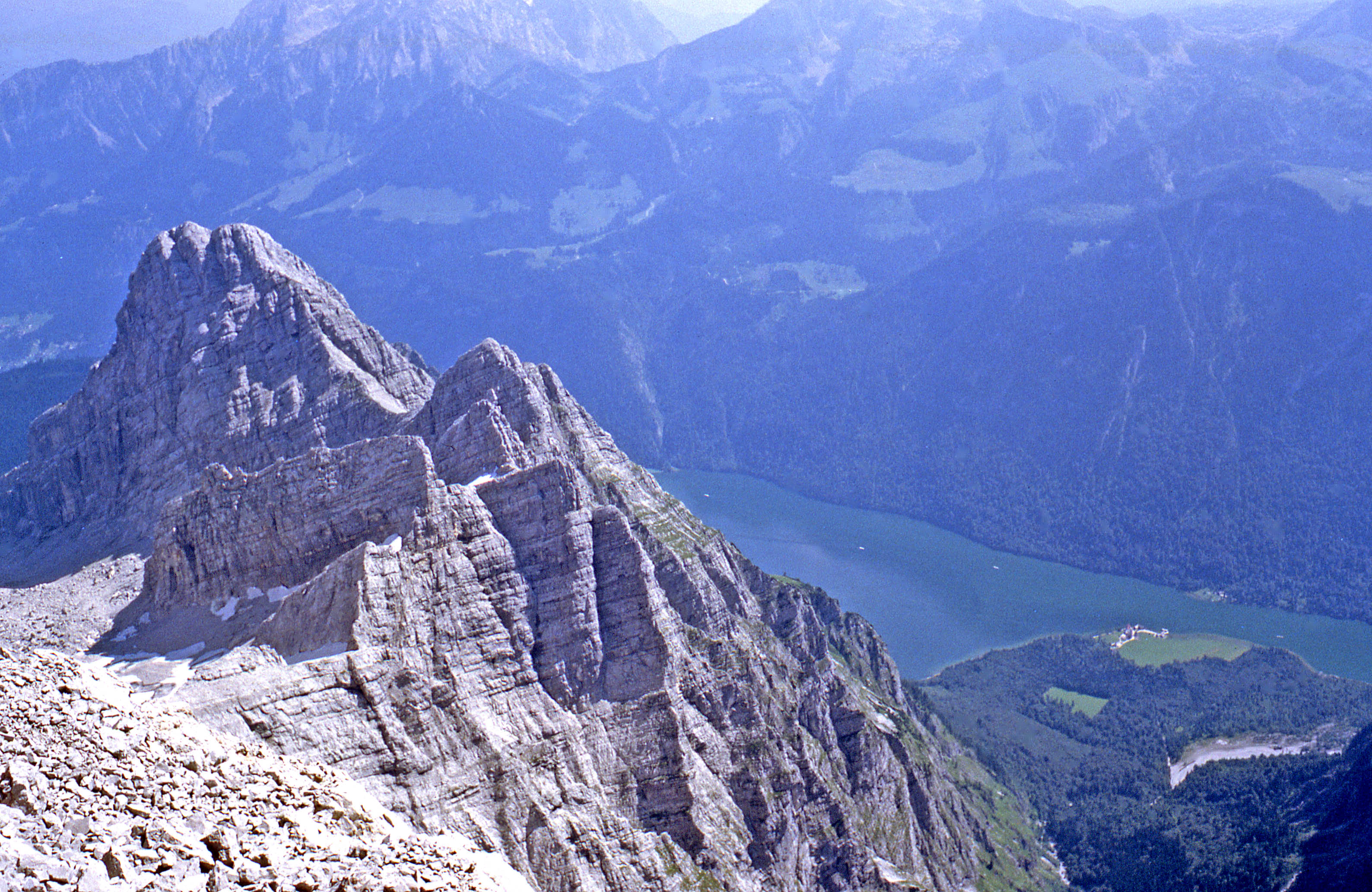 Watzmann Wife and Children with Königssee